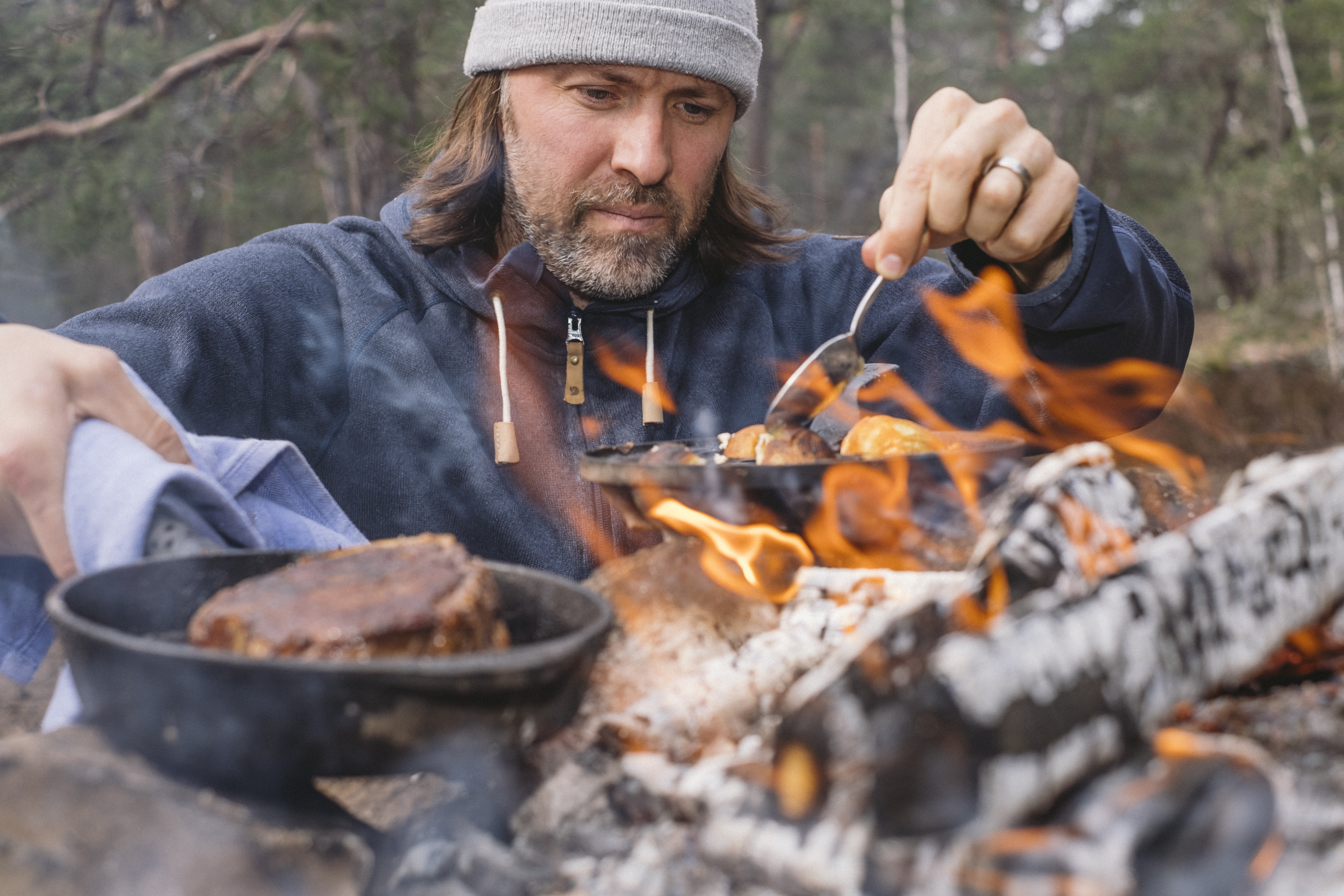 Niklas Ekstedt cooking outdoors